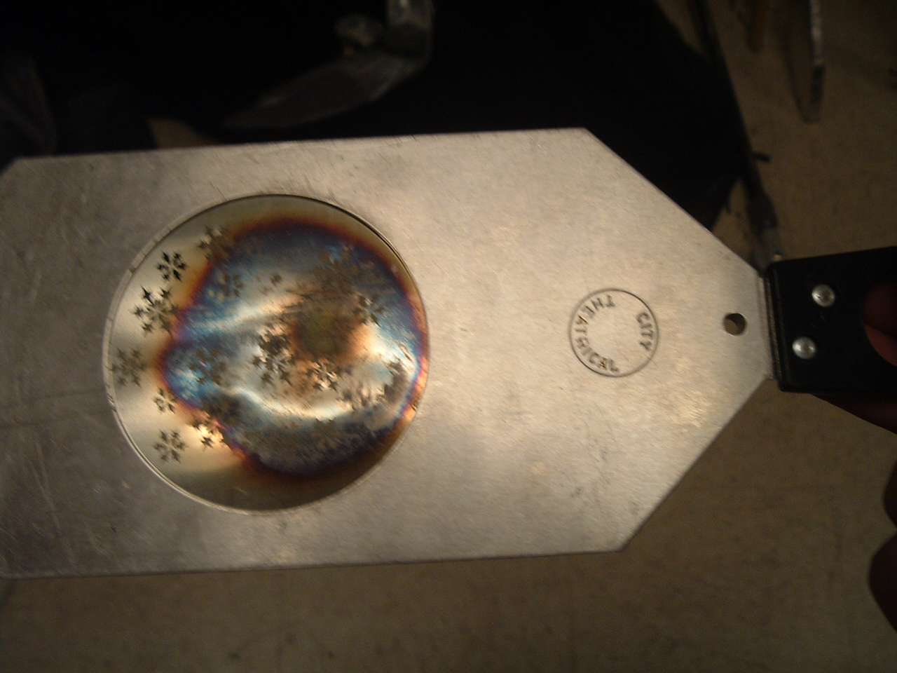 Photo of a gobo holder with a gobo inside